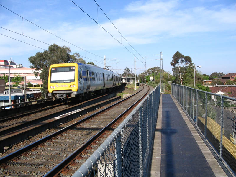 Footbridge crossing Warrigal Rd at Holmesglen Station at the beginning of the Waverley Rail Trail